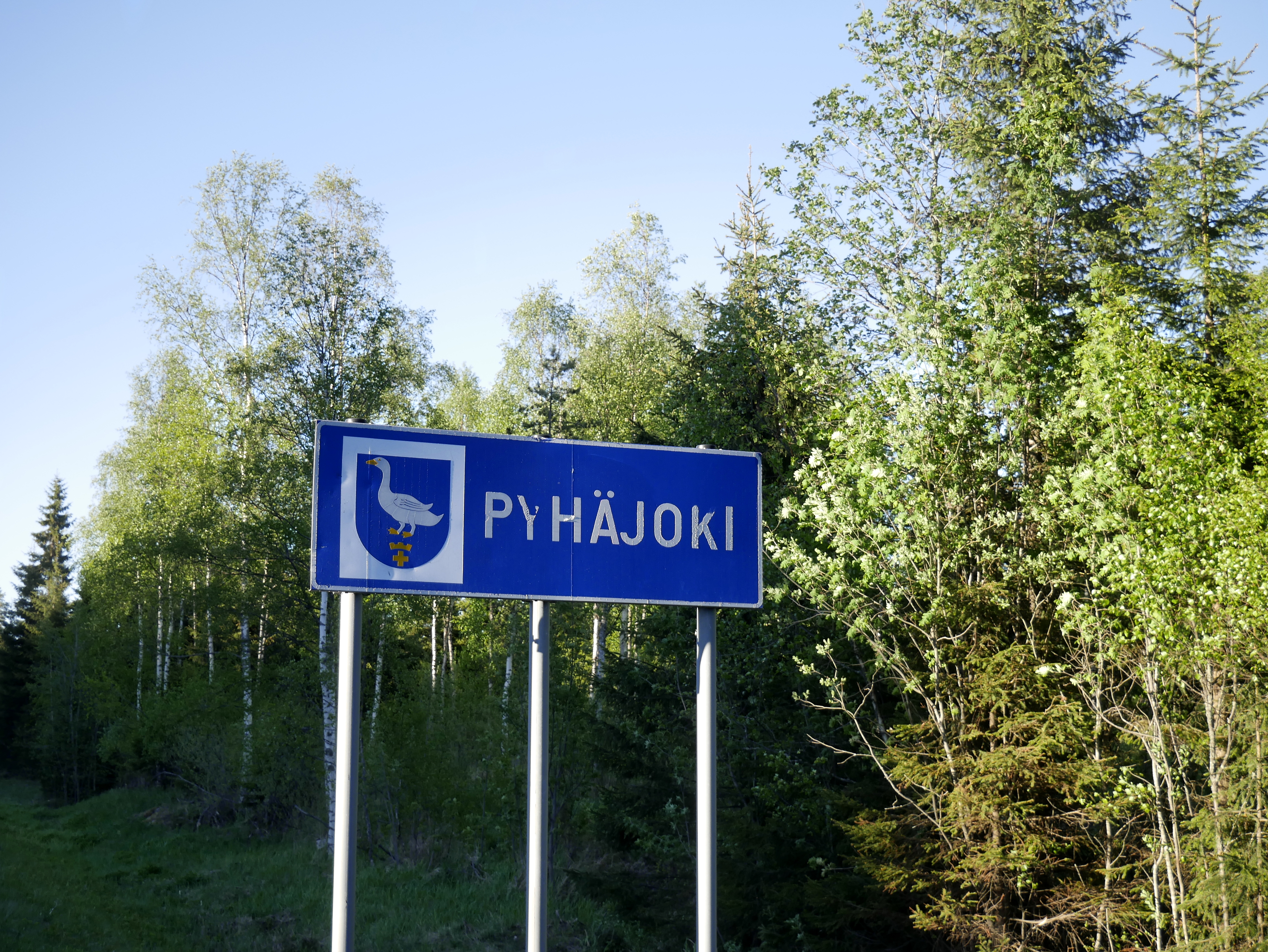 Pyhäjoki municipal border sign.